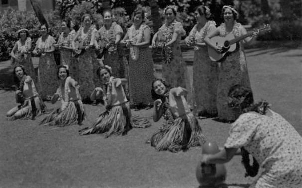 On the grounds of the Royal Hawaiian Hotel. Singers: Thelma Anahu, Hannah Attwood, Louise Akeo Silva (leader),Kuualoha Treadway, Helen Alama, Imogene Eaton, Mary Lum Saffery, Harriet Smith, and Clara Inter (Hilo Hattie). Dancers: Tootsie Notley, Delphine Ornellas, Caroline Hubbell, and Ululani Barrett. Chanter: Ruby Notley Namahoe.